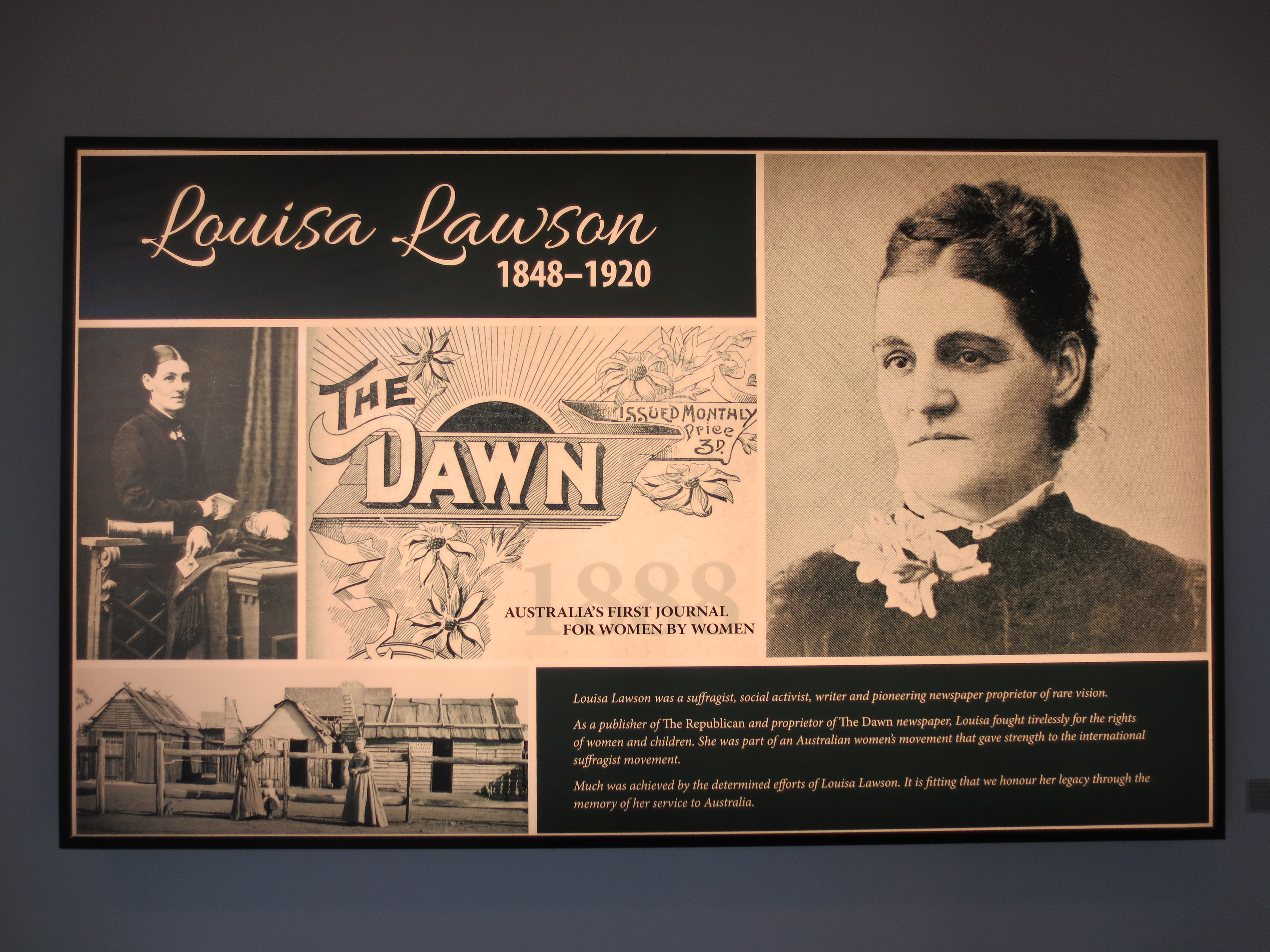 Louisa Lawson back light memorial plaque in Greenway building photo taken November 2015